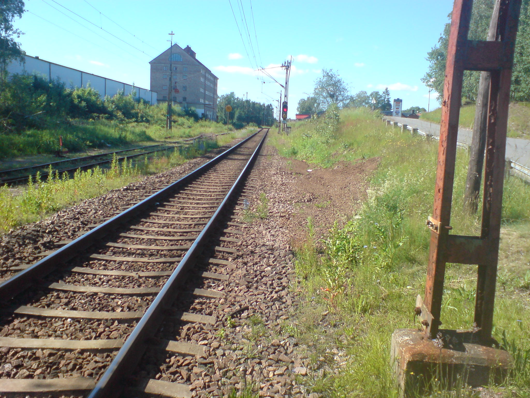 Markarydsbanan just outside Hässleholm. Photo towards Markaryd